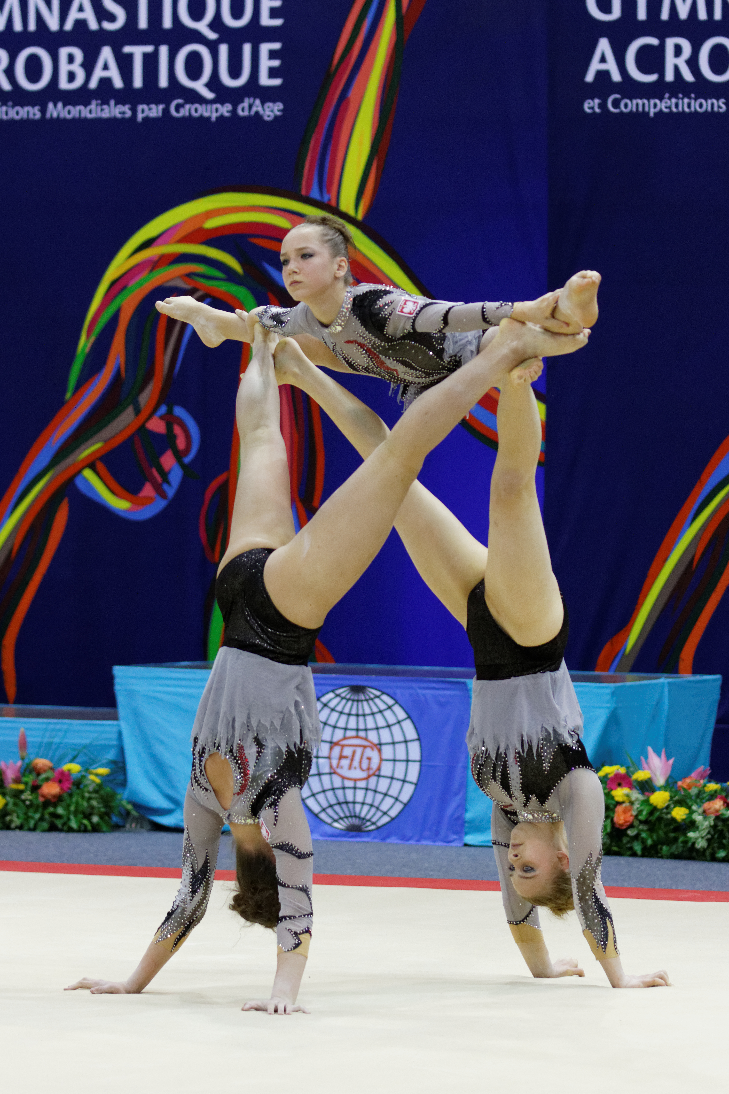 2014 Acrobatic Gymnastics World Championships, 10th-12 July, Levallois-Perret, France. Qualifications: women's group. Poland.